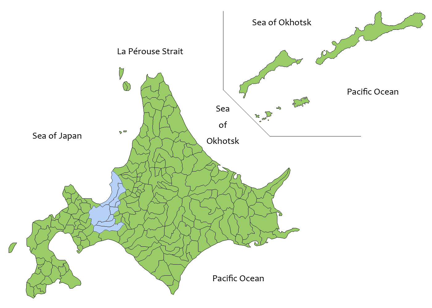 Map of Ishikari subprefecture in English